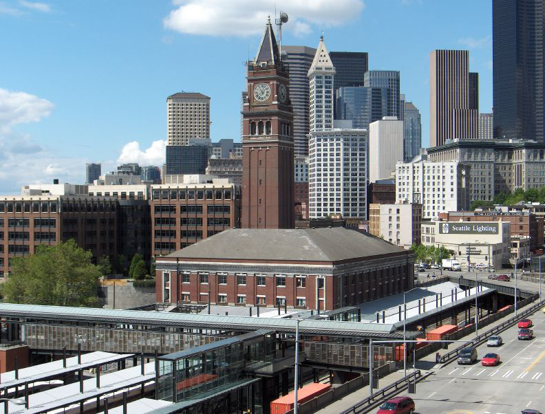 View of King Street Station from southeast